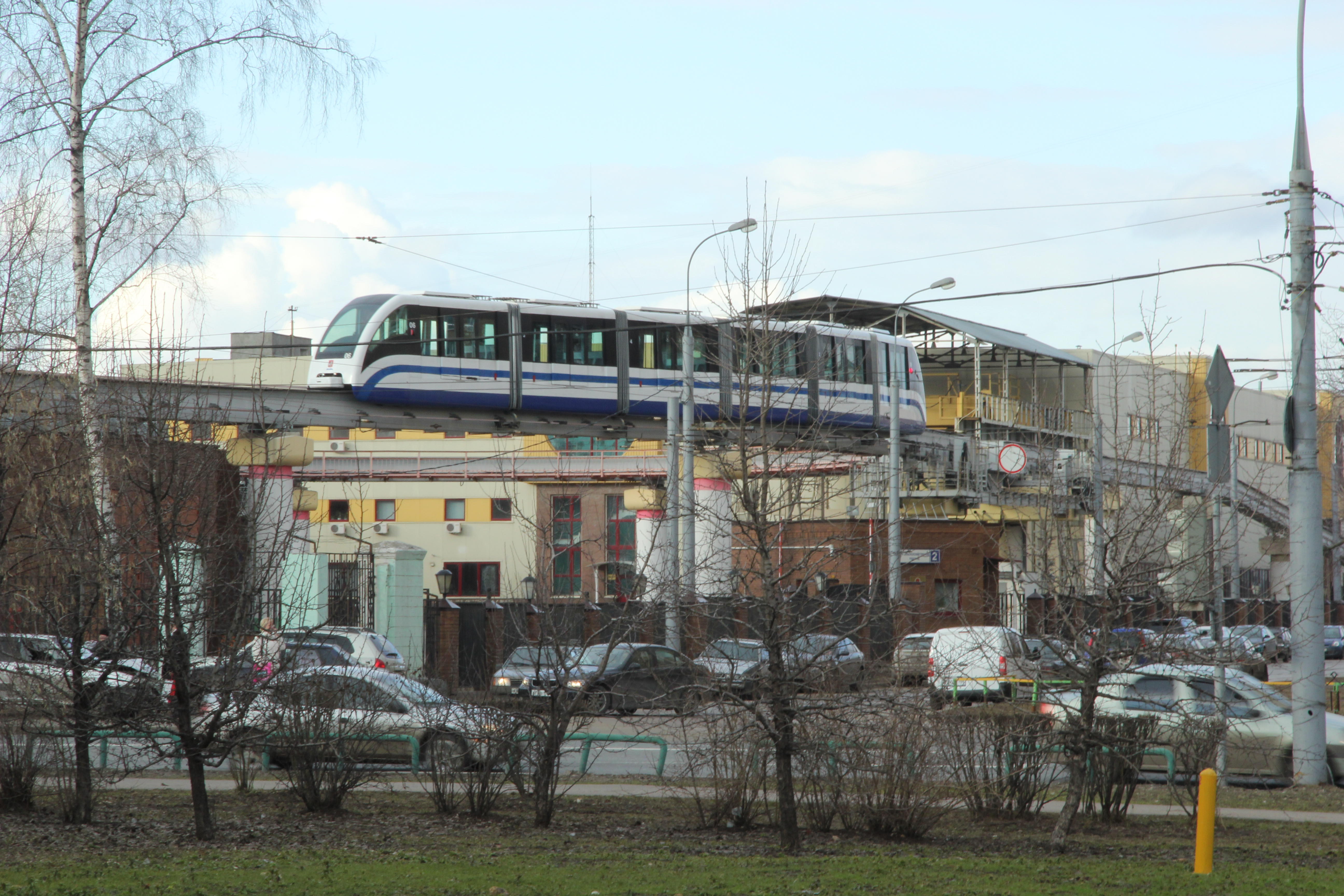 Rostokino Moscow Monorail depot.